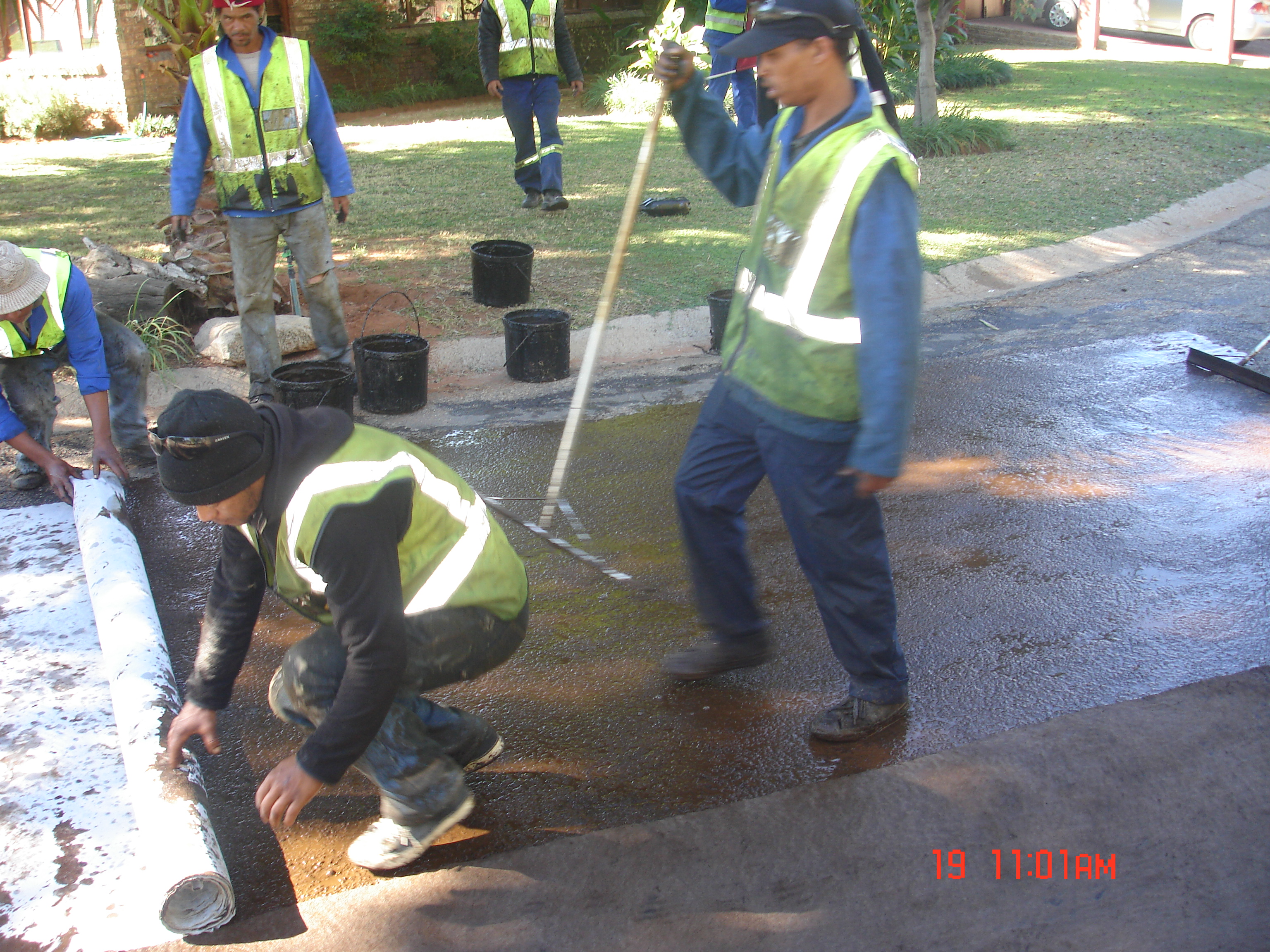 Here we are using a emulsion and a material to protect the road from cracking. This is an image of "African people at work" from South Africa